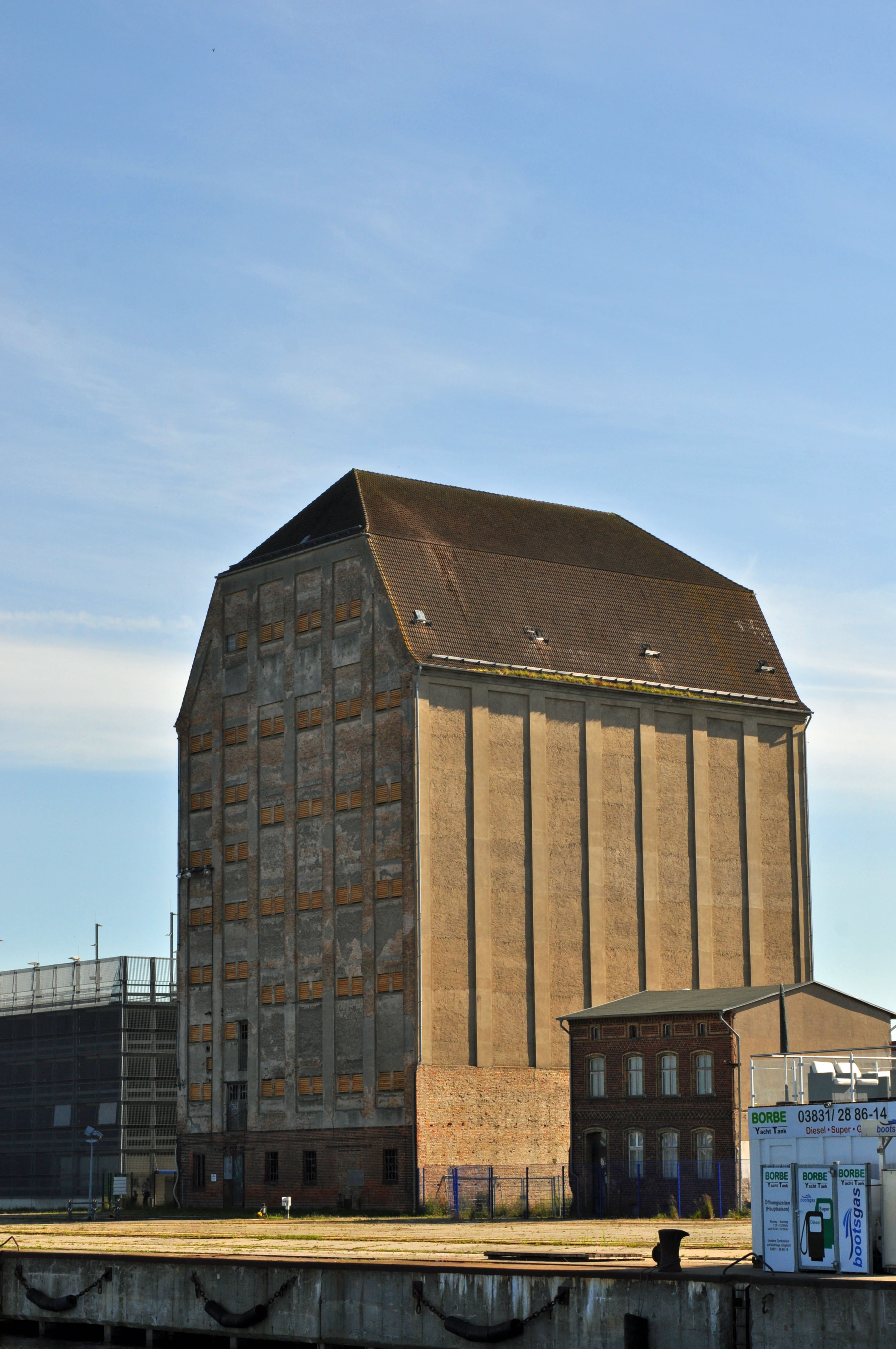 Gebäude in Stralsund, siehe Dateiname This is a photograph of an architectural monument.